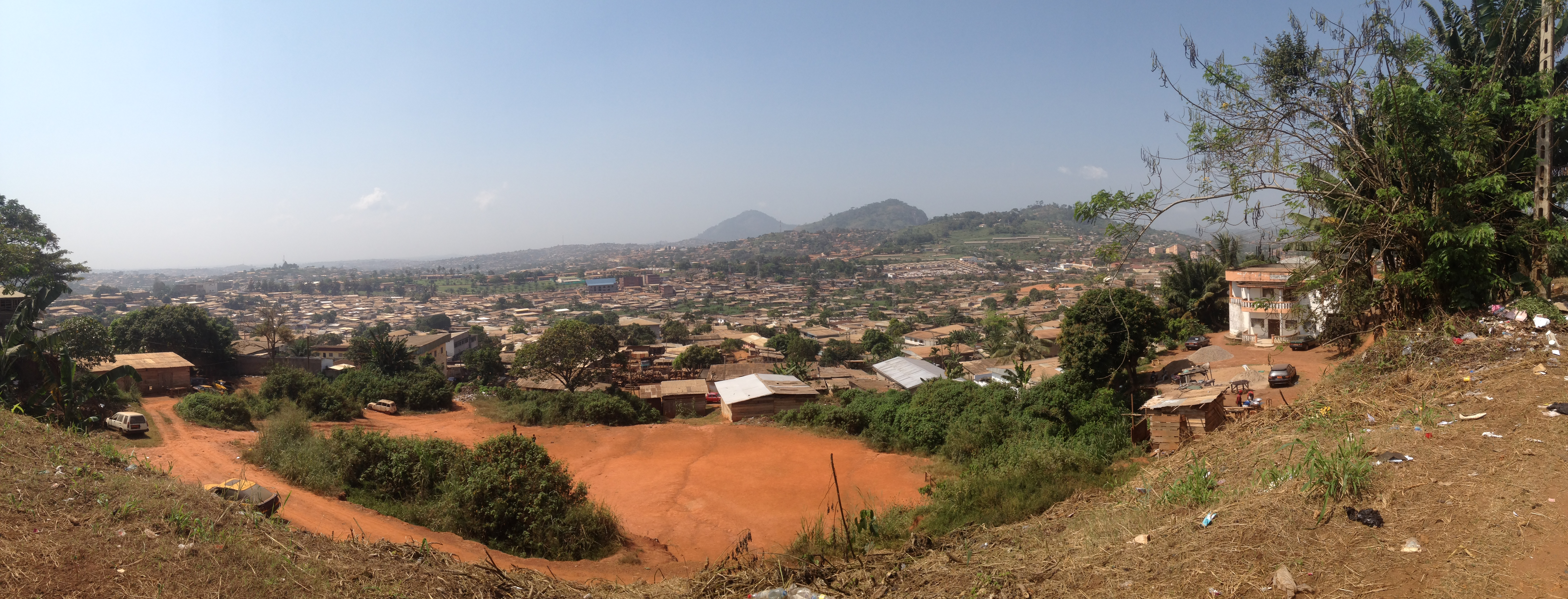 View of Yaoundé from the top of Montée du Park